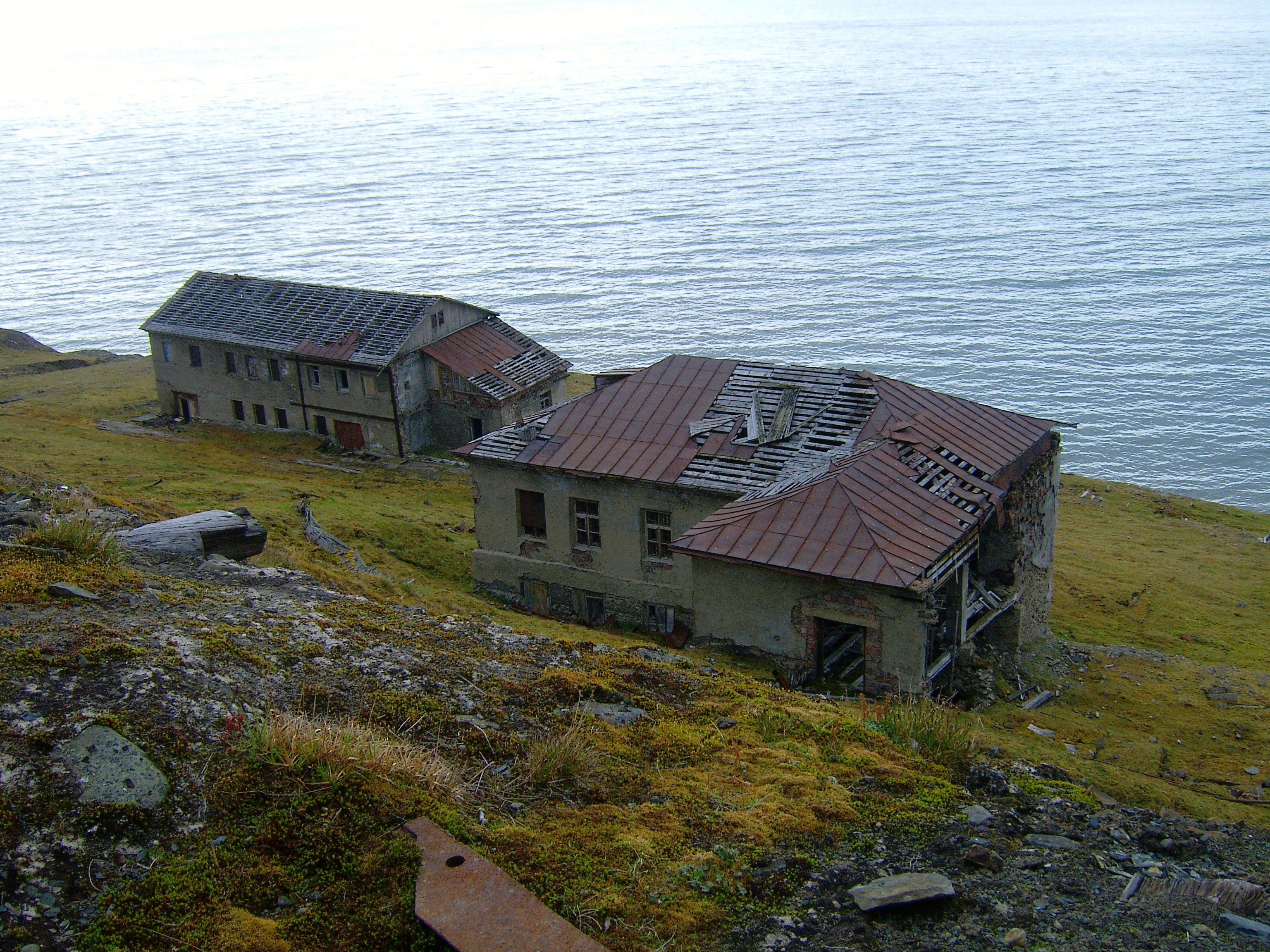 Two abandoned houses in the deserted Russian mining town of Grumant on Svalbard